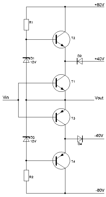 This is a simplified schematic of a class H amplifier. T1 and T3 are used as Class B amplified and T2/T4 enhance the circuit to class H boosting the rail voltage if required.